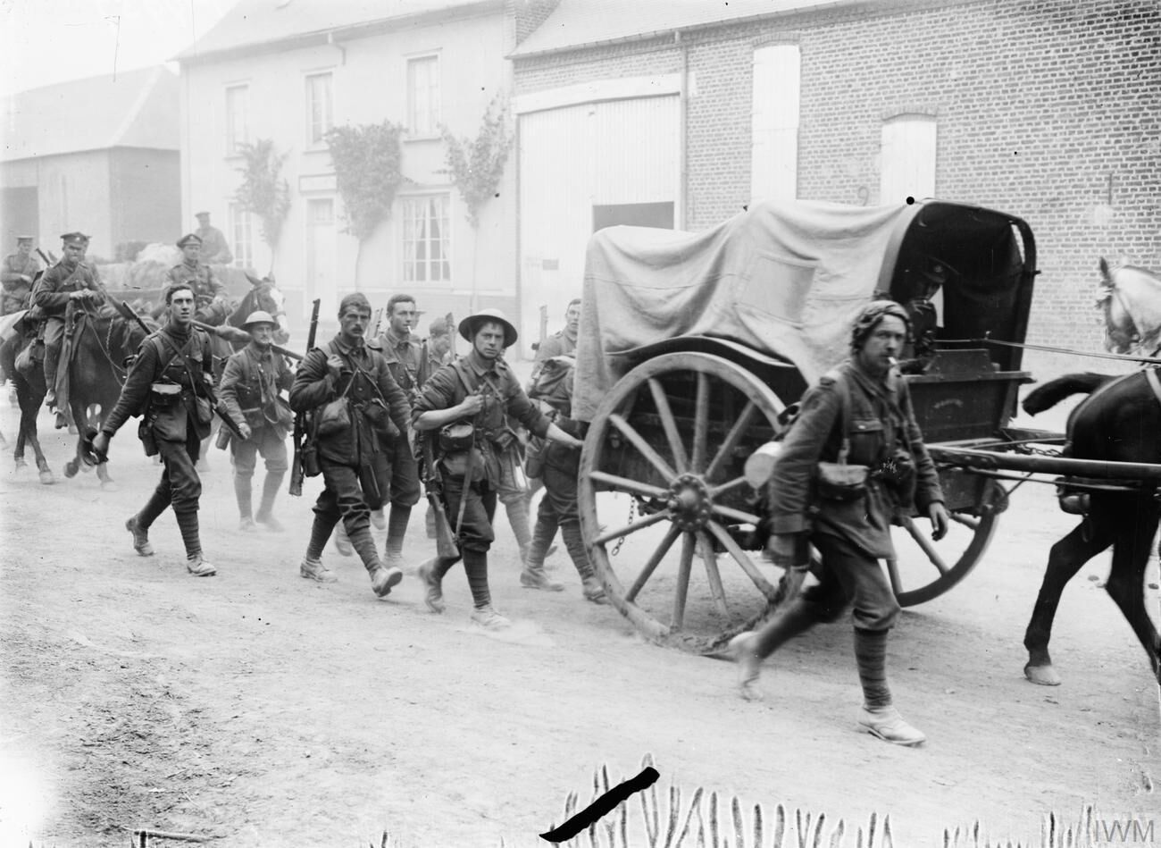 The Battle of the Somme, July-november 1916 Men of the 10th Battalion, East Yorkshire Regiment (Hull Commercials) marching to the trenches; near Doullens, 28th June 1916.